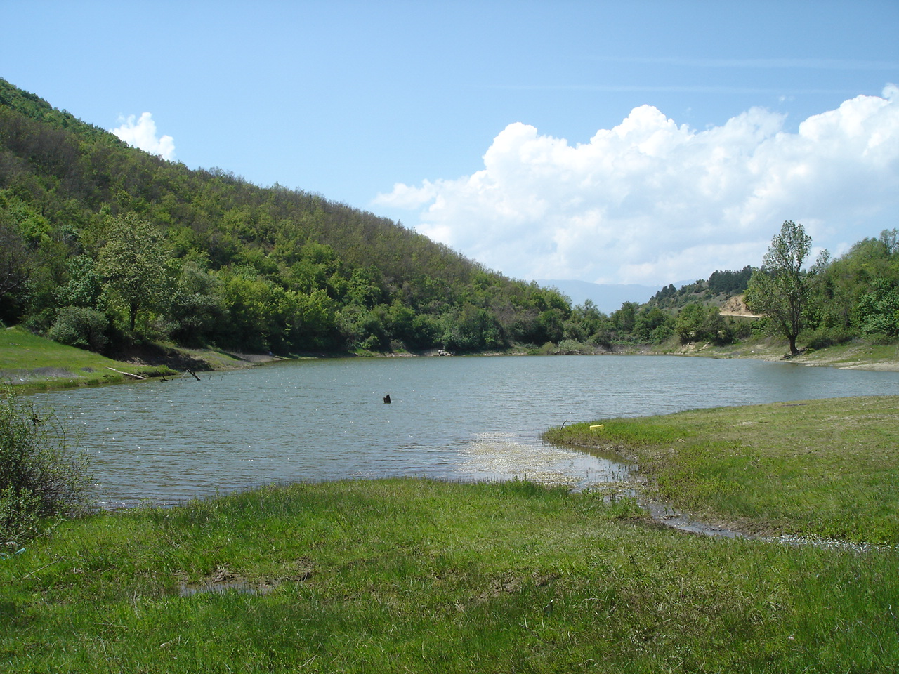 Bobano natural lake, near Trebeništa, Macedonia